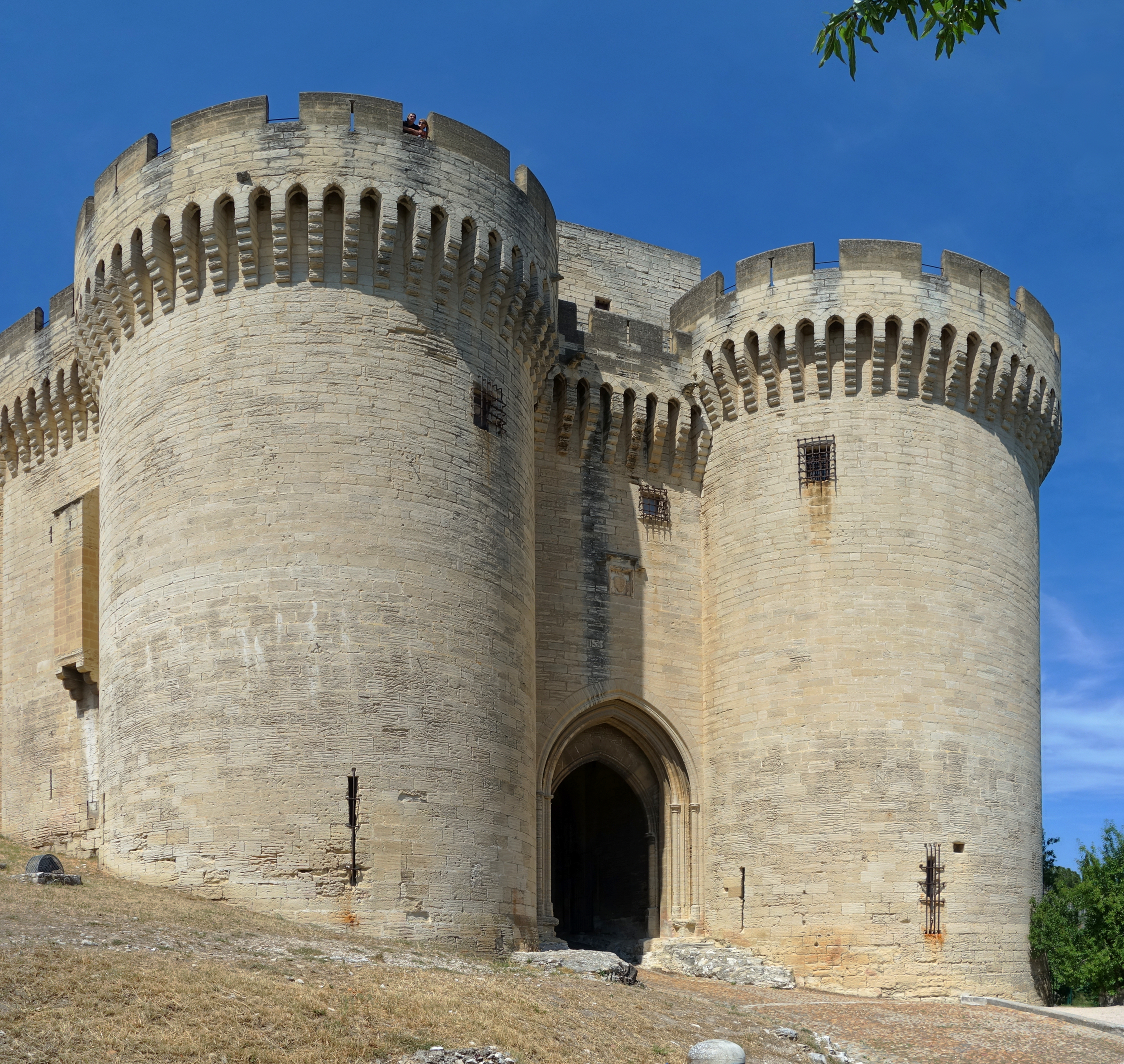 Entrance of Fort Saint-André in Villeneuve-lès-Avignon, France.